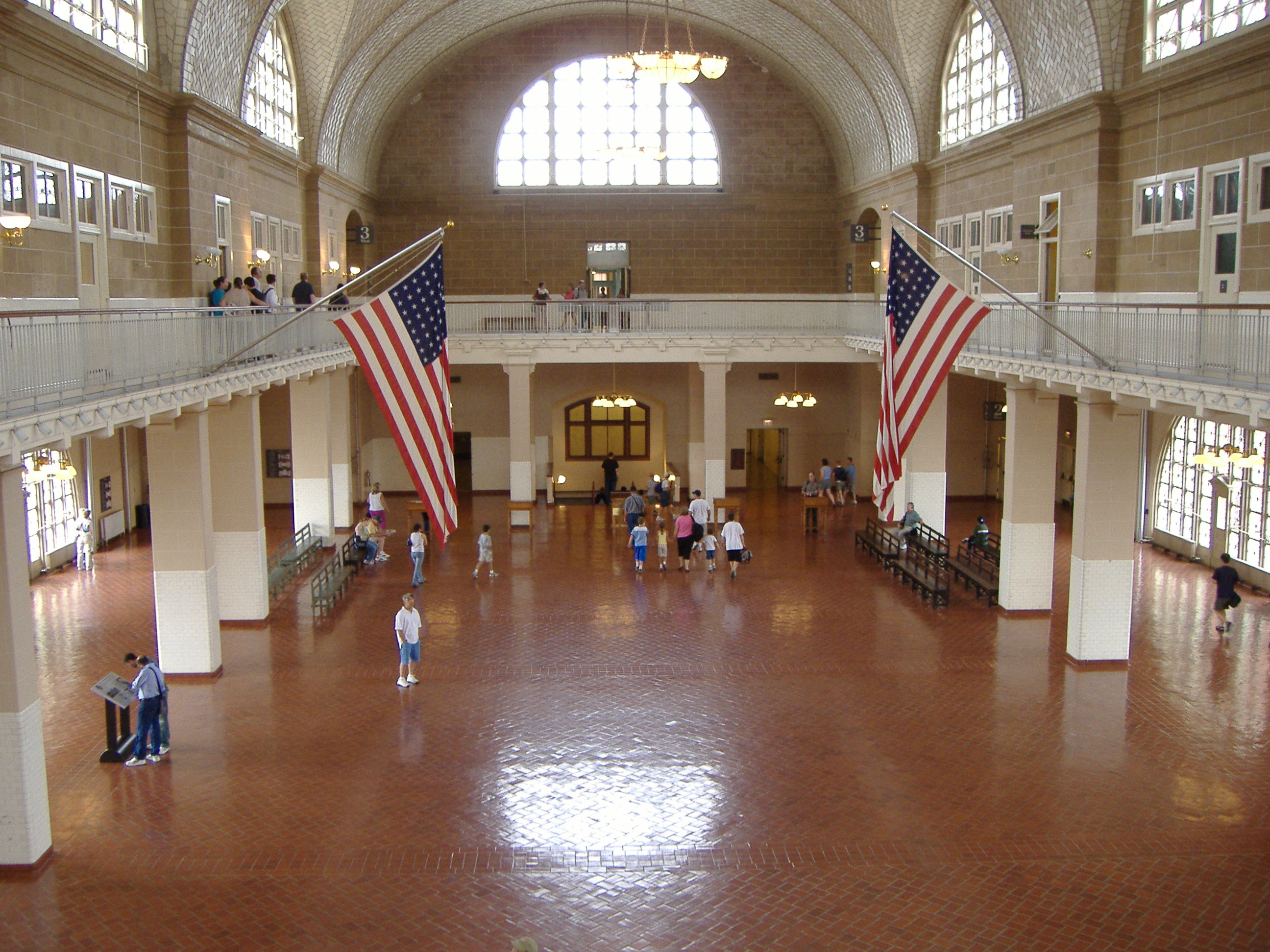 Created by me. This is the interior to the main hall at Ellis Island museum in New York